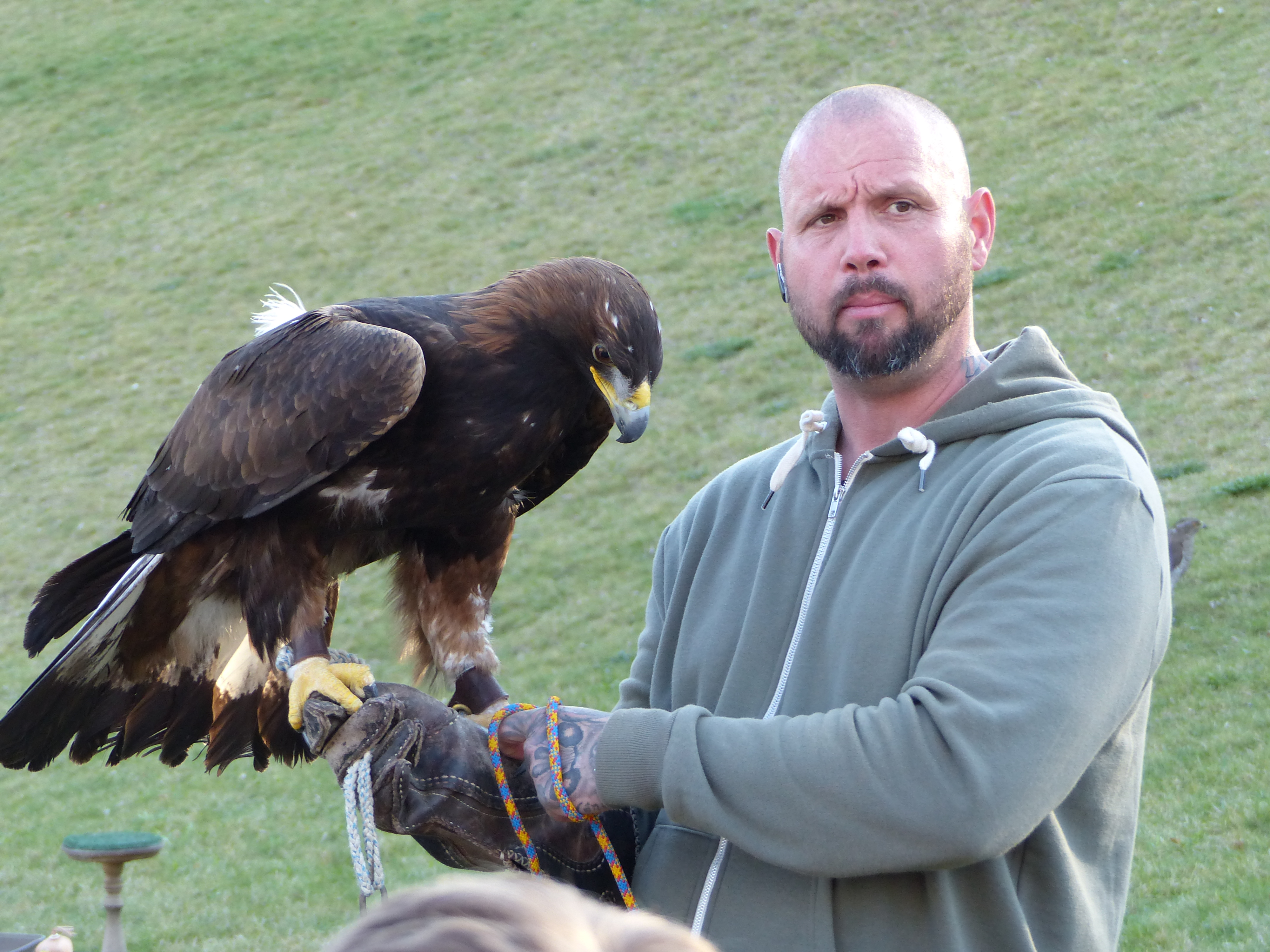 Taken on the 1st of April, 2017. Várkert Bazár, Budapest, Hungary. Central Europe. Pont Festival 2017. Pont (enː Point) is the place, where roads emerge. There we are united as one. This was the first Pont Festival (2017.04.1-2)